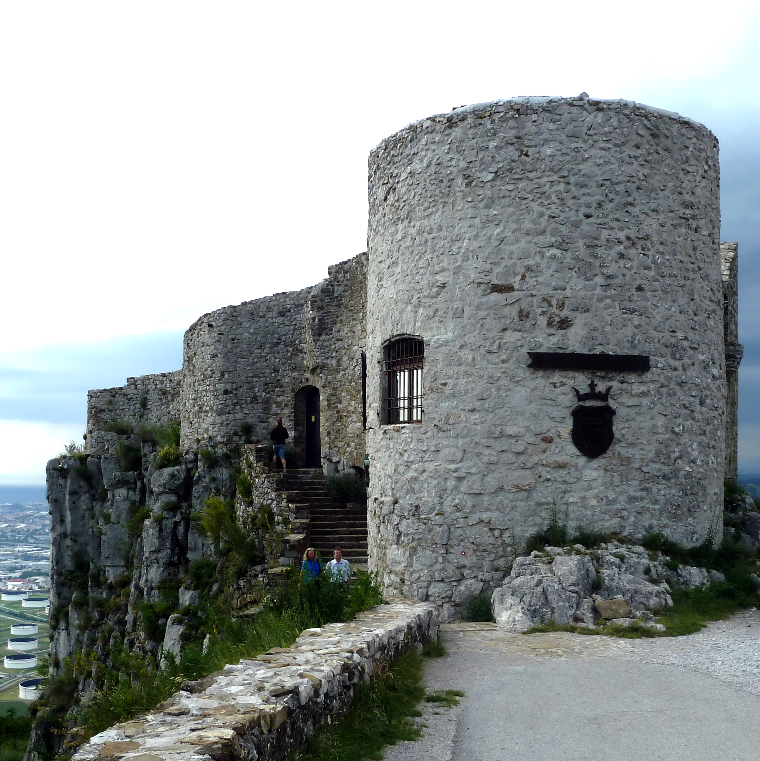 Socerb Castle